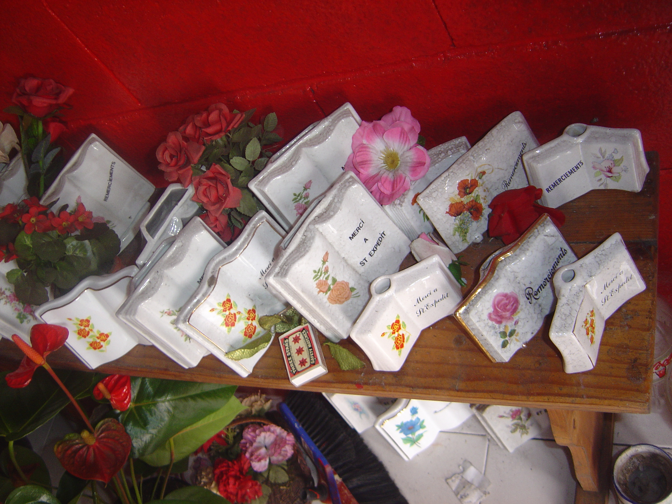 An altar to Saint Expédit: ex-votos